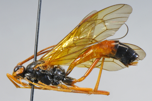 Opheltes glaucopterus, specimen from Alaska, USA